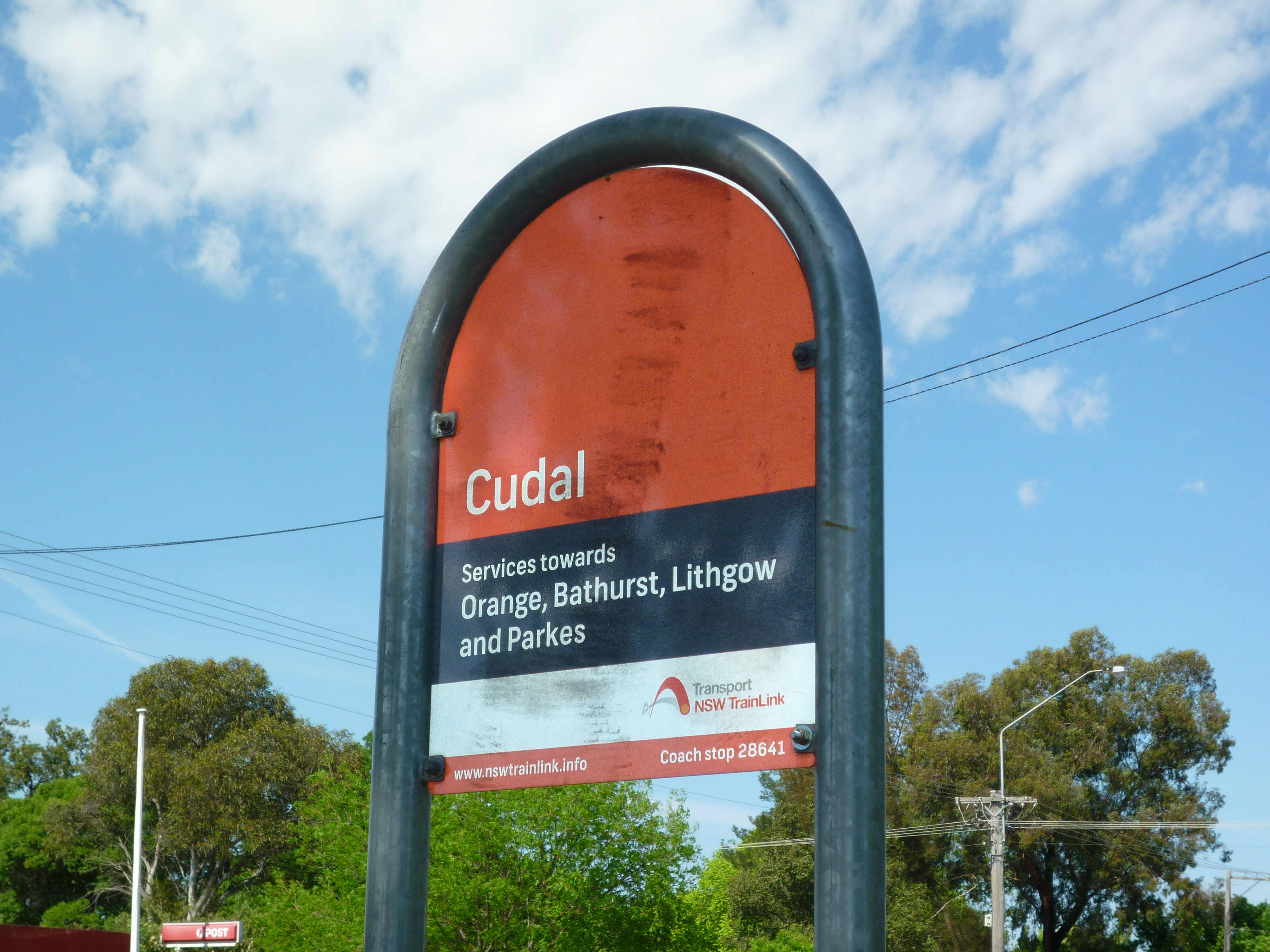 Orange direction bus stop in Cudal, New South Wales.